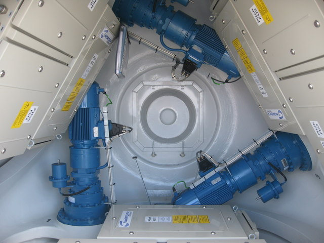 Interior of the hub of Turbine No 3. Here is a rare view of the inside of the hub of Turbine No 3 For the more technical minded, the equipment inside is the pitch system for controlling the angle of the three blades; this consists of three independent pitch gears driven by the blue electrical motors. The hub is made of cast iron and weighs 23 tons. The small hatch at the rear will be the only way to access this compartment once the hub is fitted to the nacelle on top of the tower see 696963 753998 696917 696211 633643 728835 Turbine details: Tower Height: 60m Blade Length: 40m Total Max Height: 100m Manufacturer: Nordex Model: N80